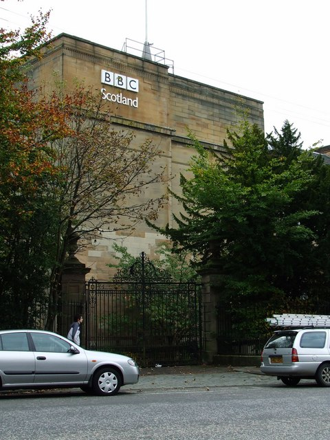 BBC Scotland. The former HQ of BBC Scotland on Queen Margaret Drive, opposite the Botanic Gardens. The new HQ at Pacific Quay 579681 opened recently.